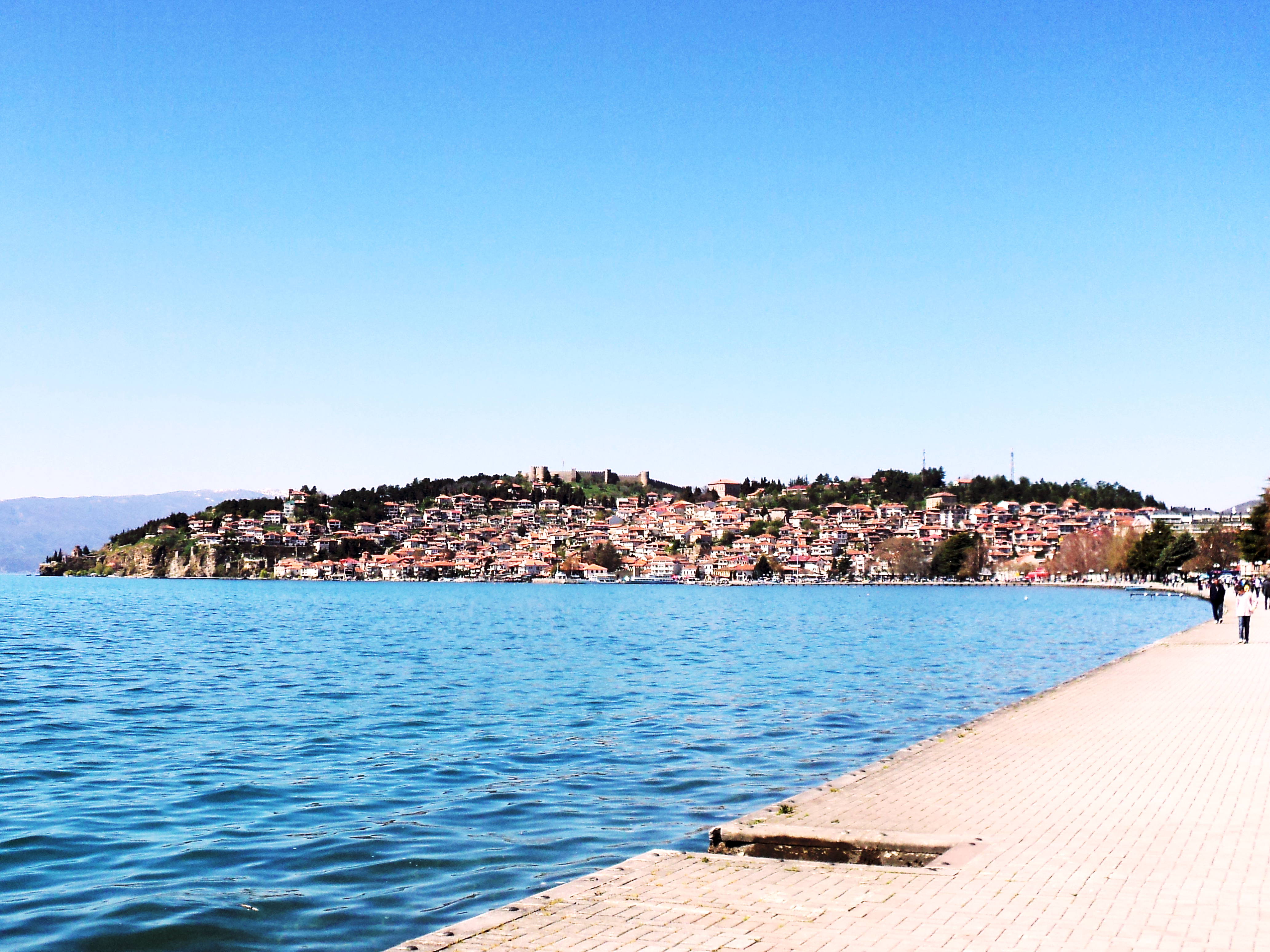 Lake's shore in Ohrid and cities old part. (Ohri, Macedonia)